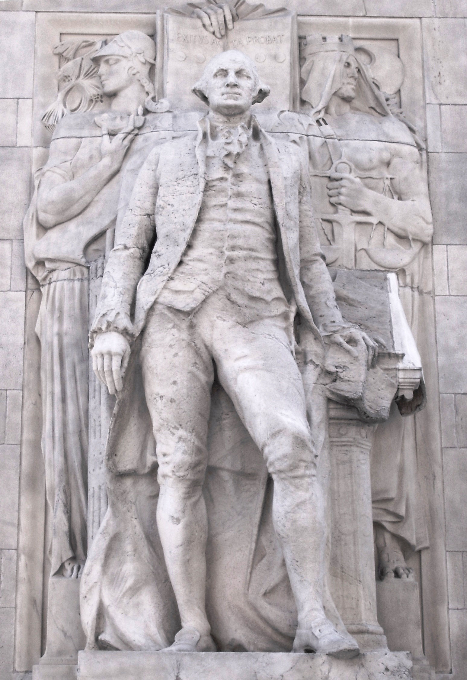 On the west pier of Stanford White's Washington Square Arch is Alexander Stirling Calder's Washington in Peace (1918). A.S. Calder was the father of the noted artist Alexander Calder. (Source: AIA Guide to NYC (4th ed.))